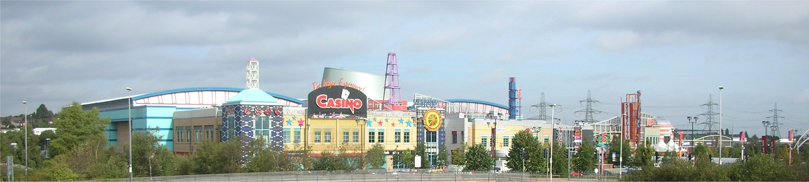 Star City, Birmingham, England. Photographed by me 12 October 2006. Oosoom